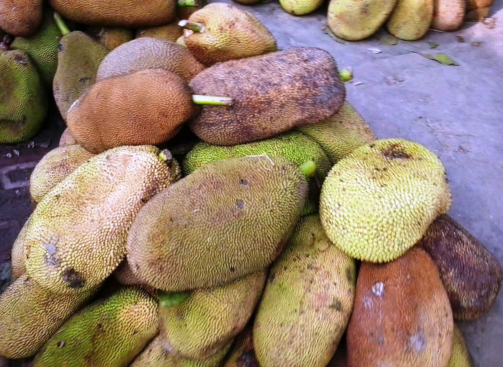 Jack fruit